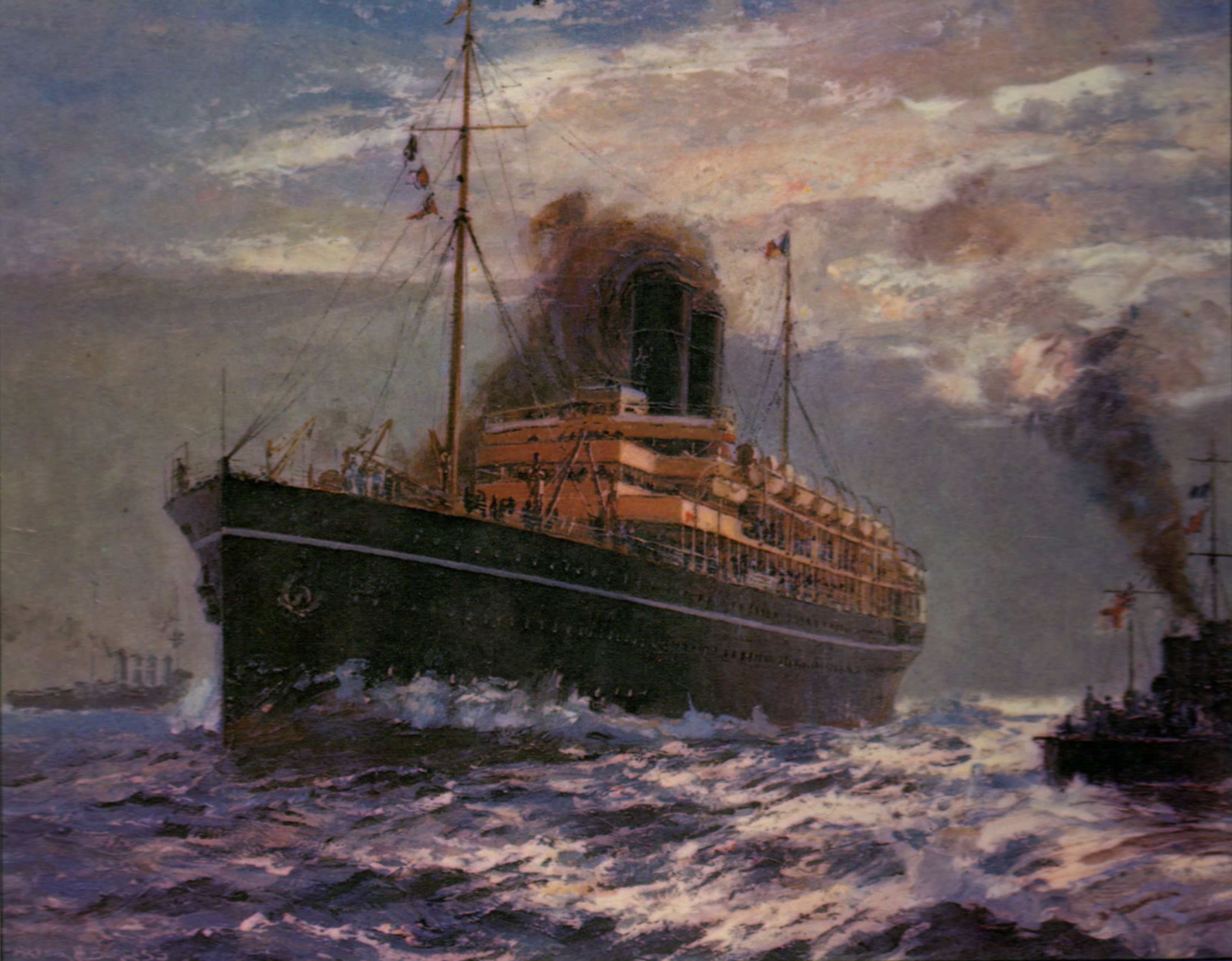 Scanned image of an oil painting of the P&O liner RMS Medina (1911) held in the collection of the P&O Group